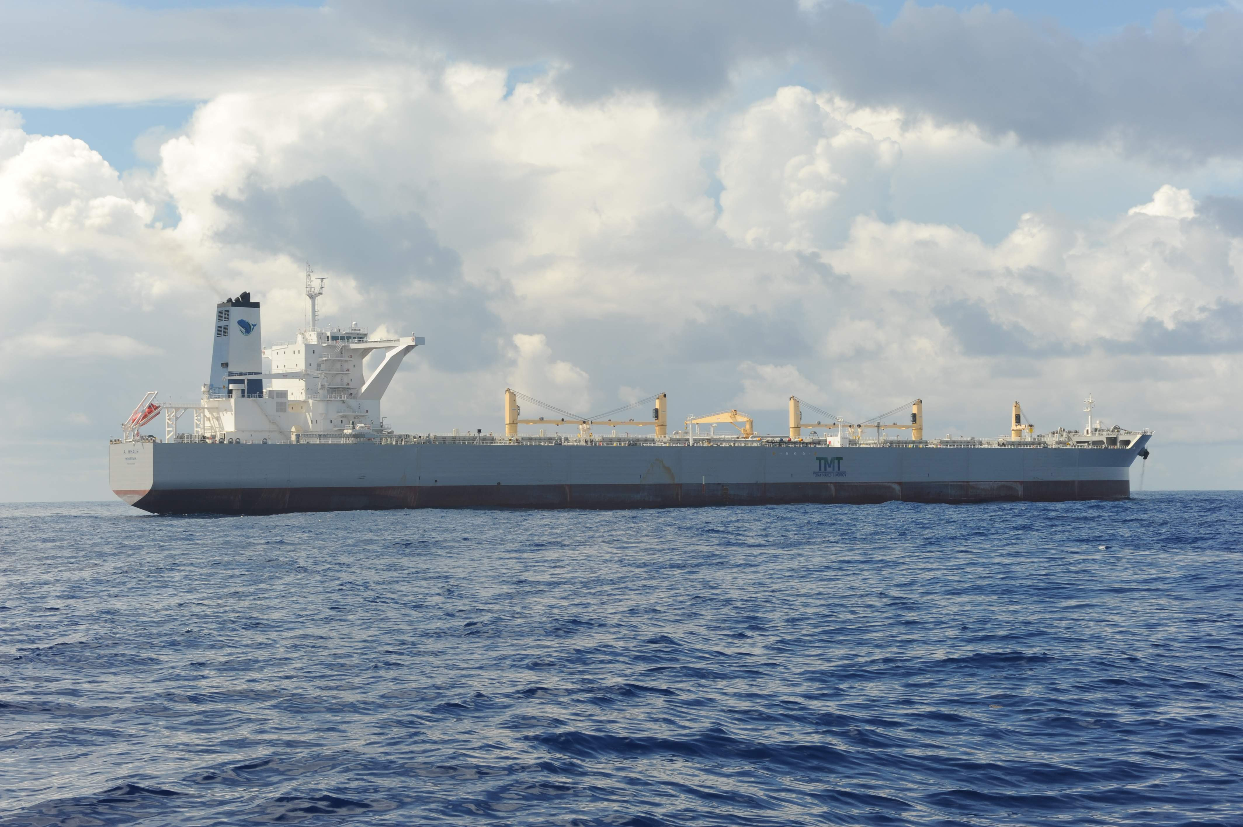 The M/V "A Whale" conducts a test of its oil skimming capabilities on open water as part of the Deepwater Horizon response July 4, 2010. The converted tanker ship is being evaluated on the effectiveness of its untested oil recovery systems. The ship was recently converted in Lisbon, Portugal in June with the hope that it could dramatically increase the amount of oil on the surface from the BP oil spill.